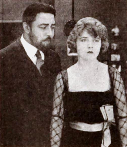 Still from the American film serial The Third Eye (1920) with Warner Oland and Eileen Percy, on page 78 of the June 5, 1920 Exhibitors Herald.